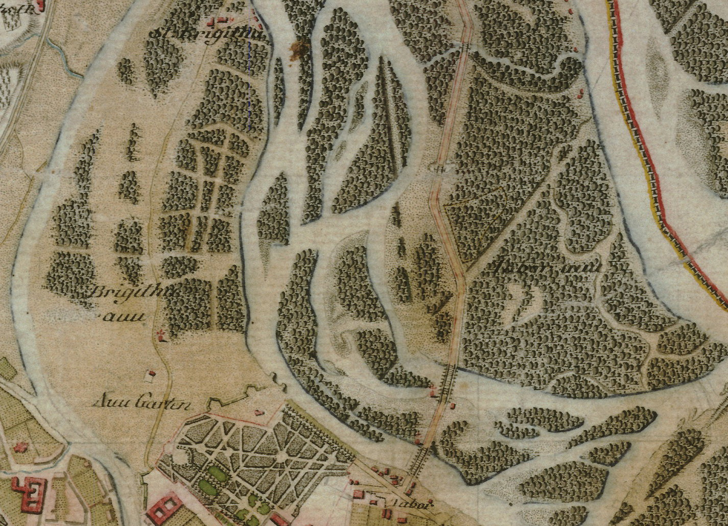 Historical map (around 1764) from [:en:Brigittenau